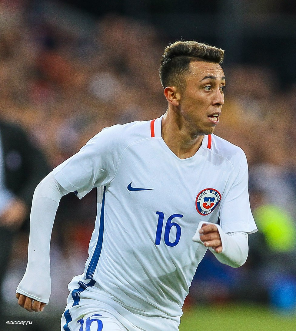 Martín Vladimir Rodríguez Torrejon